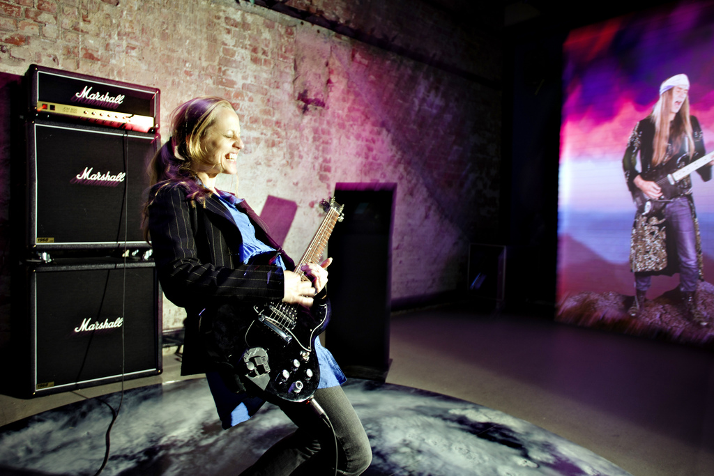 Rockheim - exhibitions.